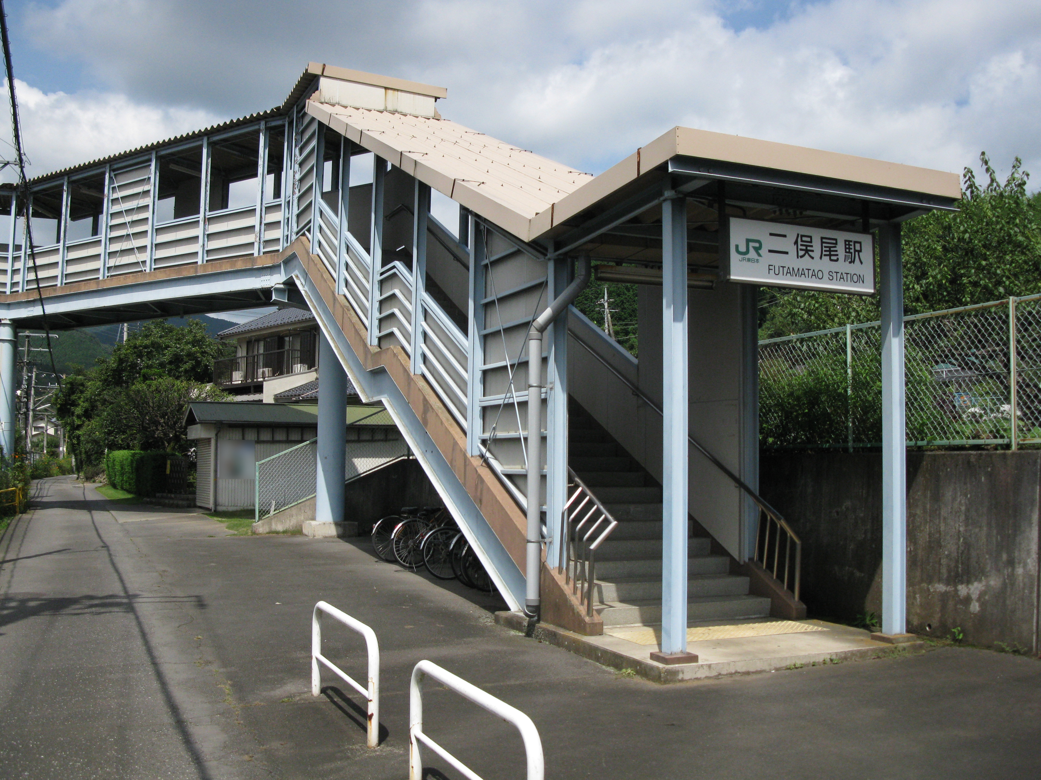 Futamatao Station north entrance (East Japan Railway Ōme Line)